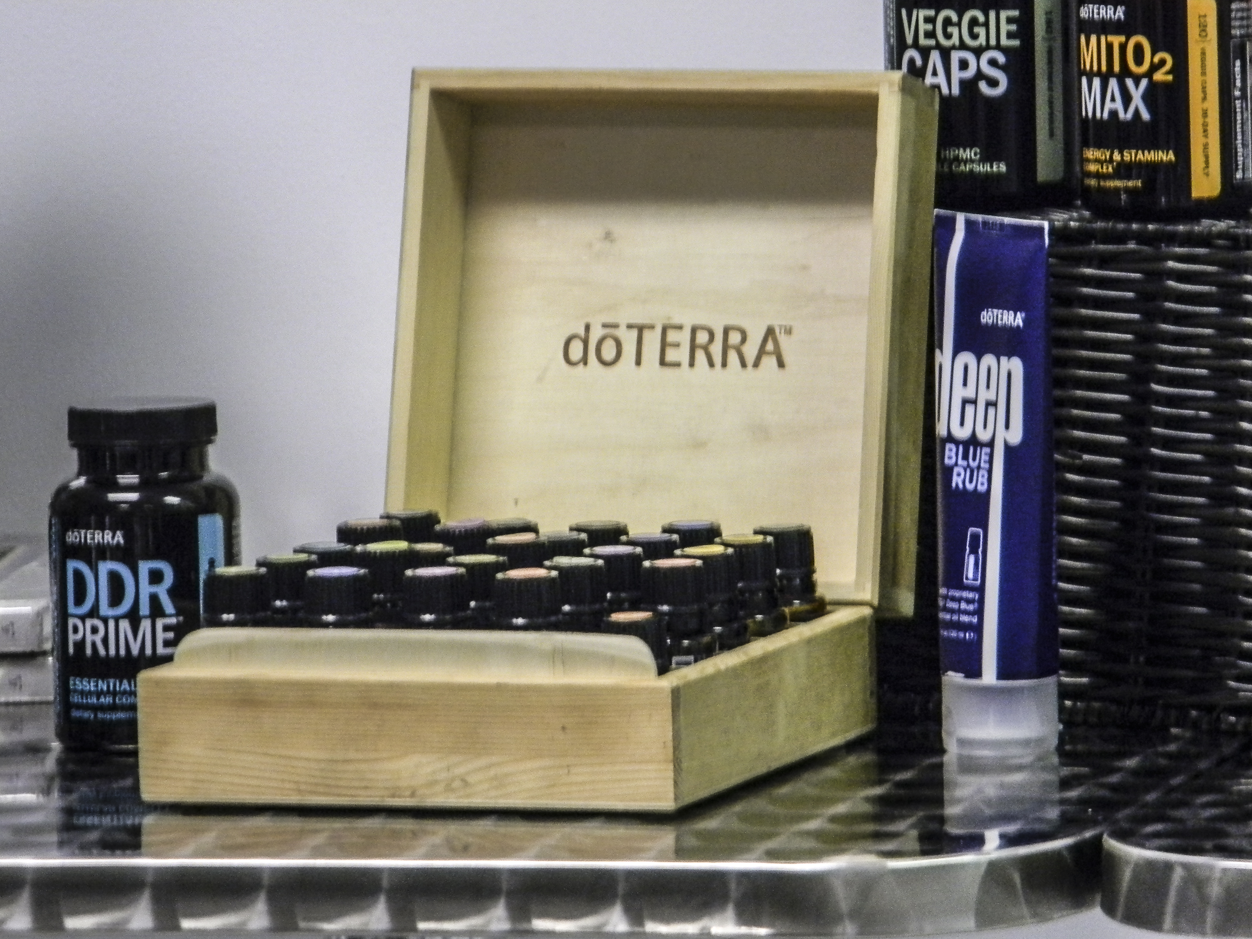 dōTERRA kit